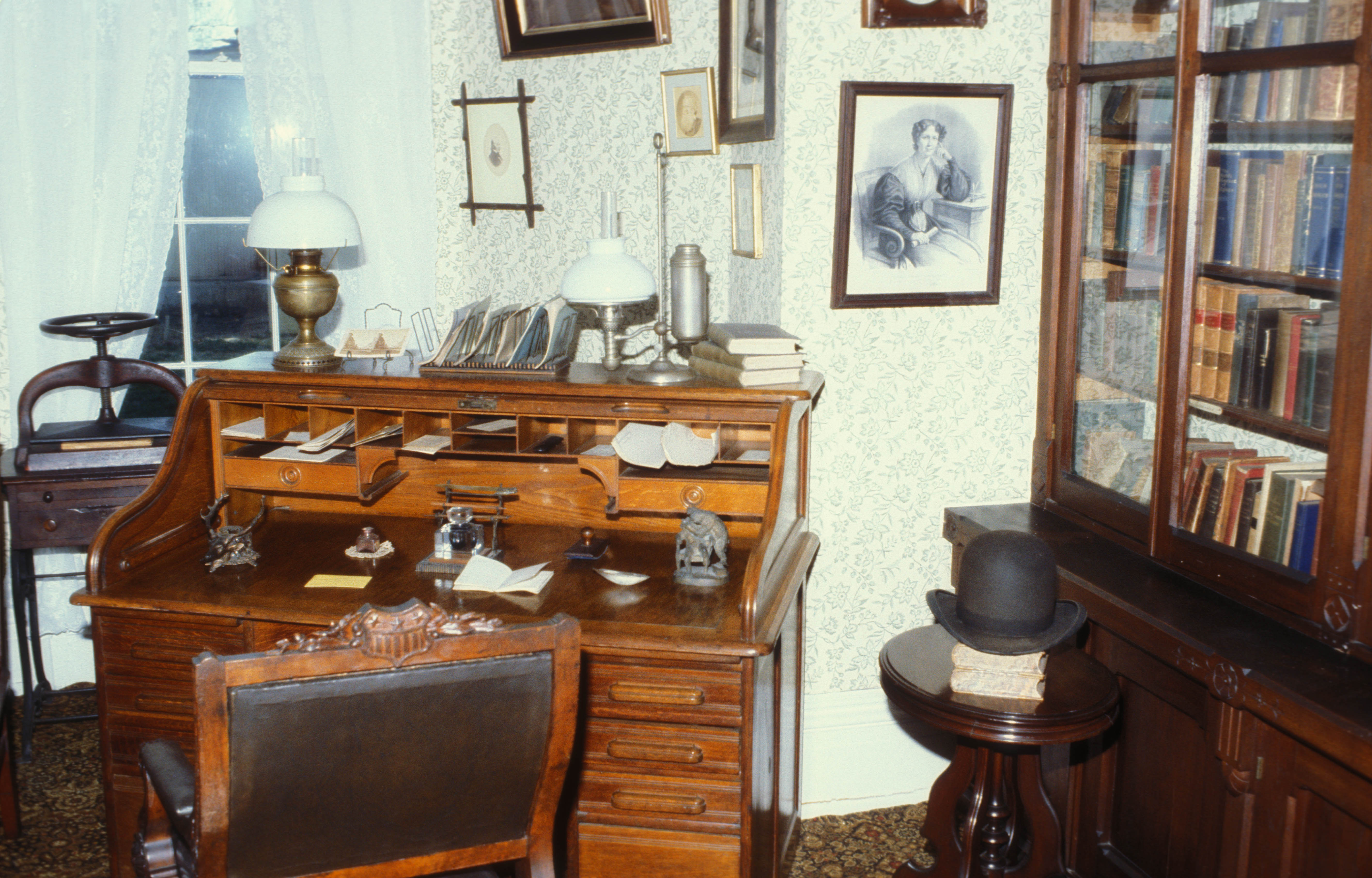 INTERIOR VIEW IN THE HOUSE